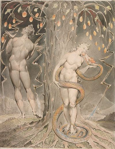 Adam and Eve by William Blake (1808), watercolour on paper